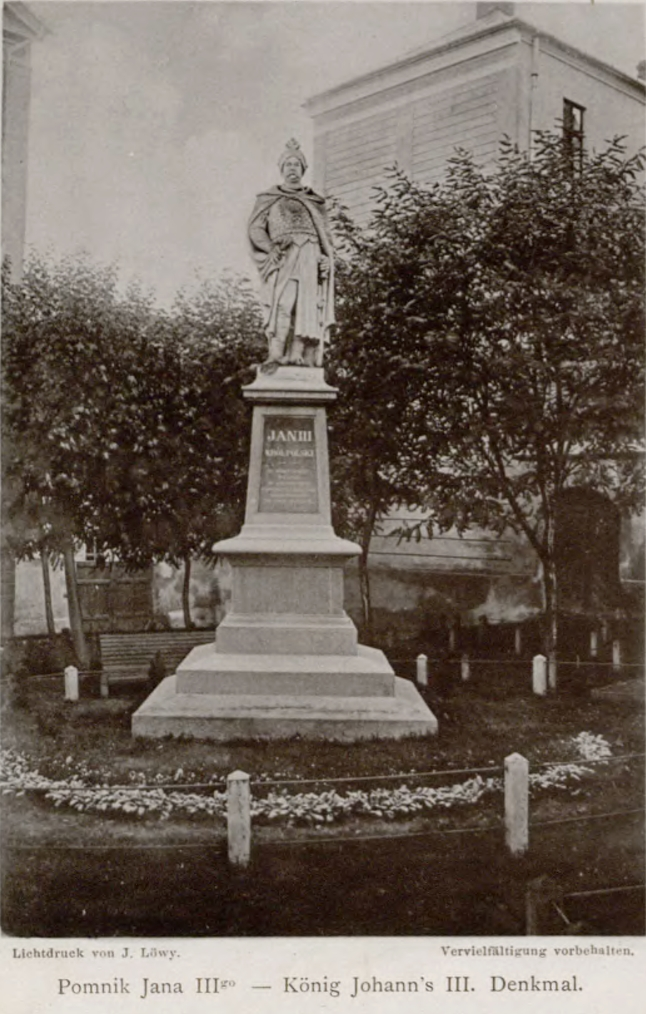 pocztówka z XIX wieku